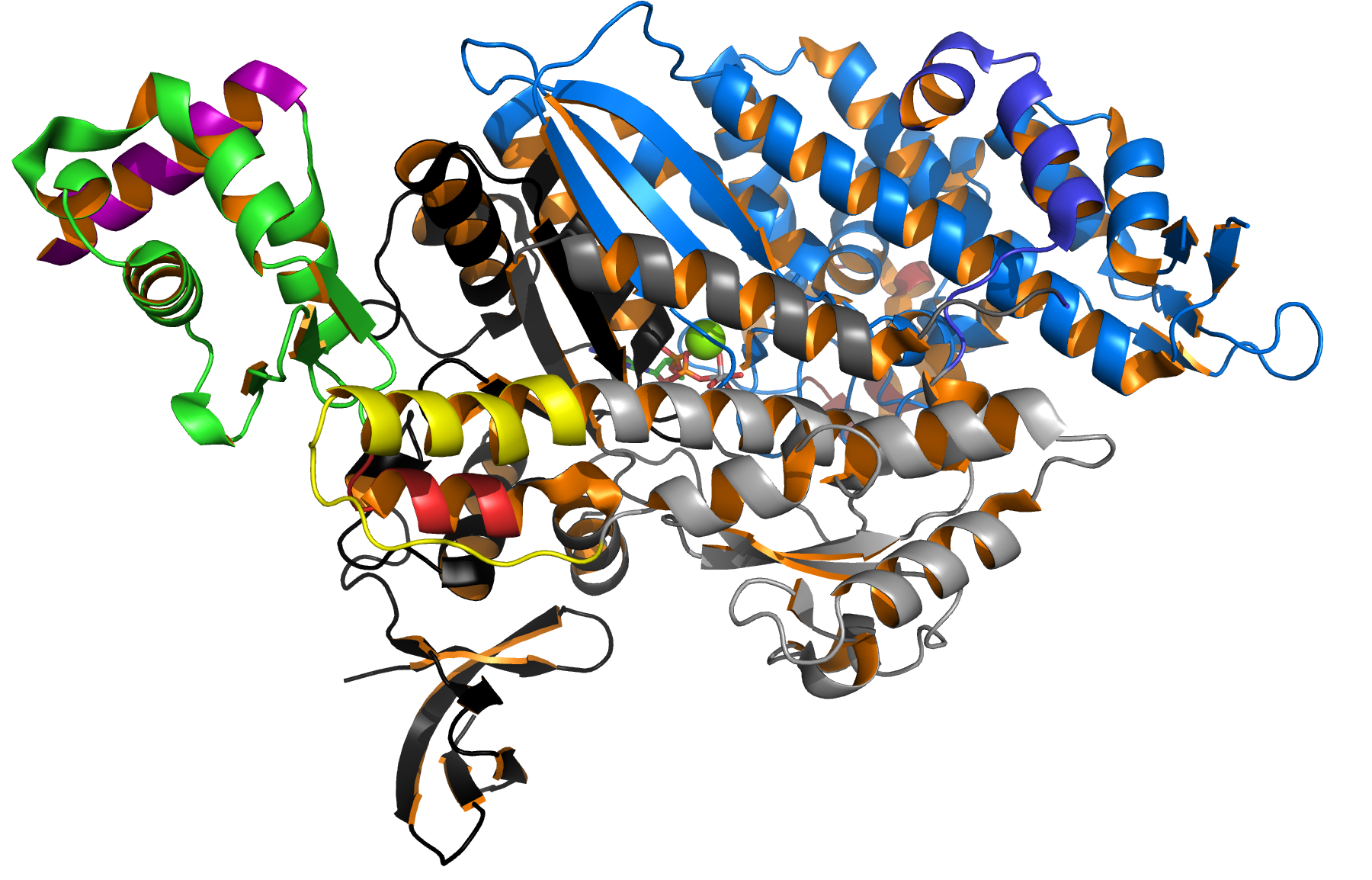 Myosin VI Pre-powerstroke state with ADP.VO4.Mg. Rendition from PDB entry 2V26.